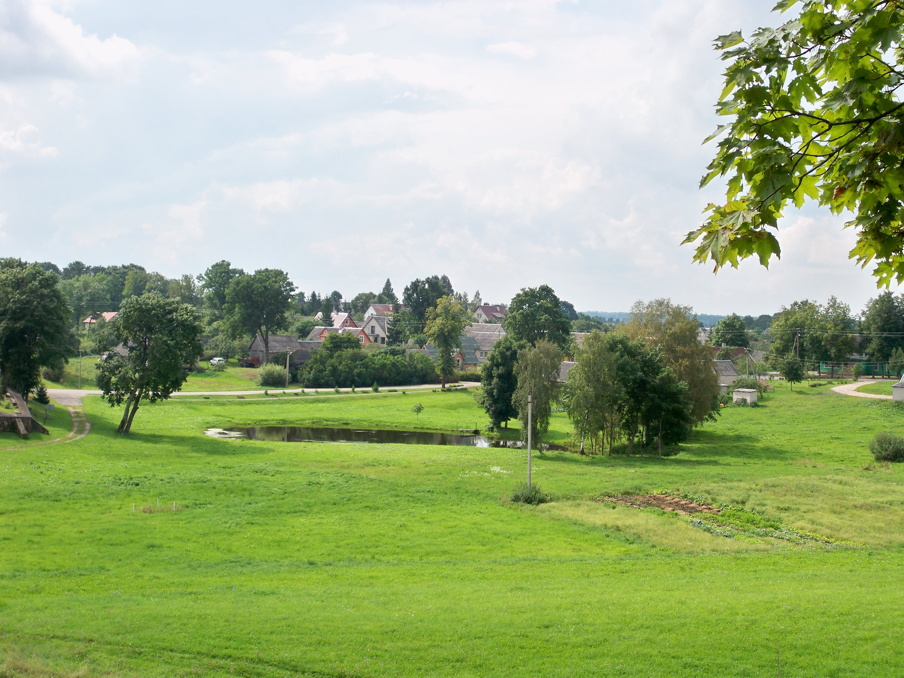 Daugailiai town from mound-hill.